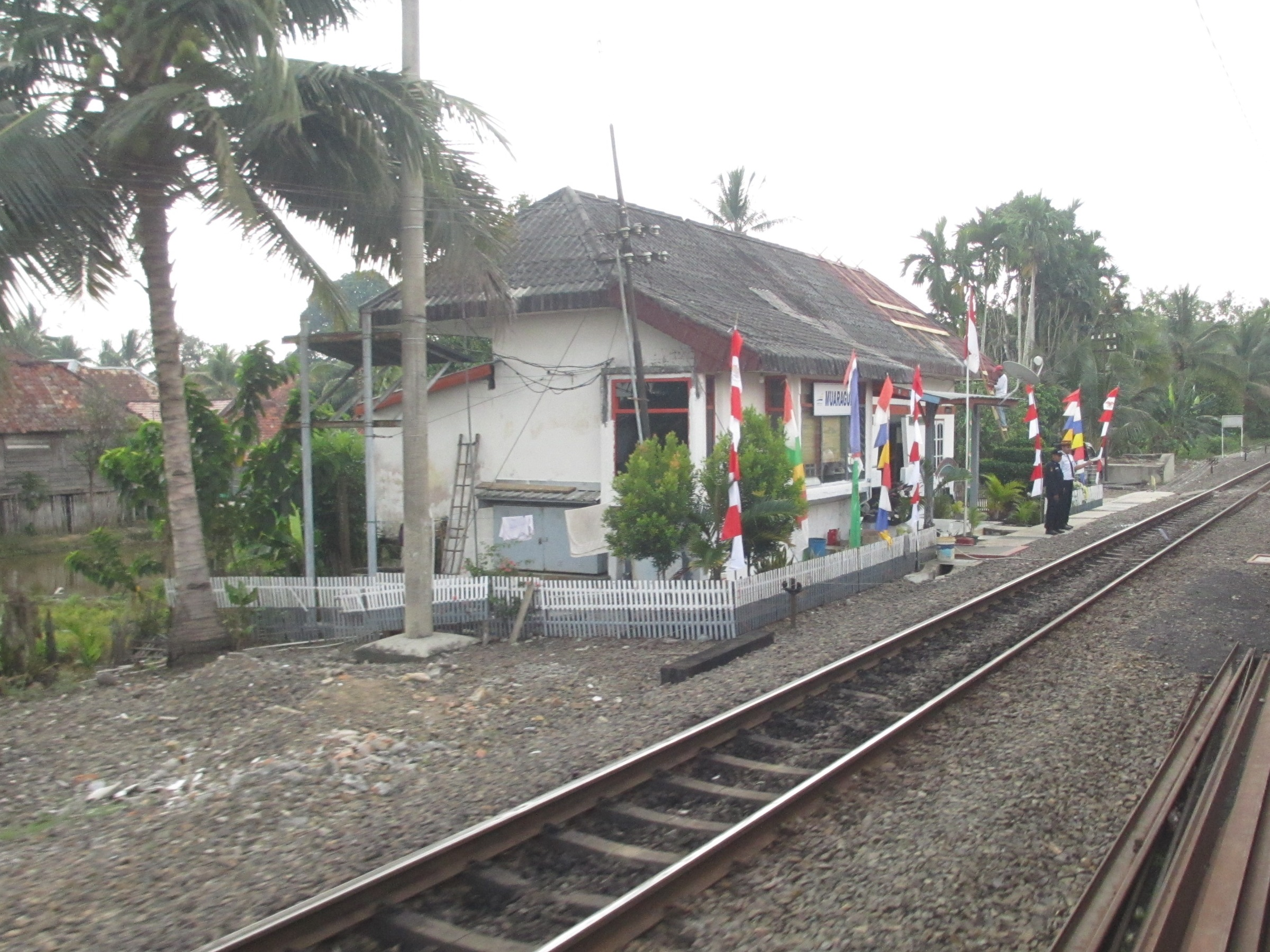 Muaragula Railway Station.